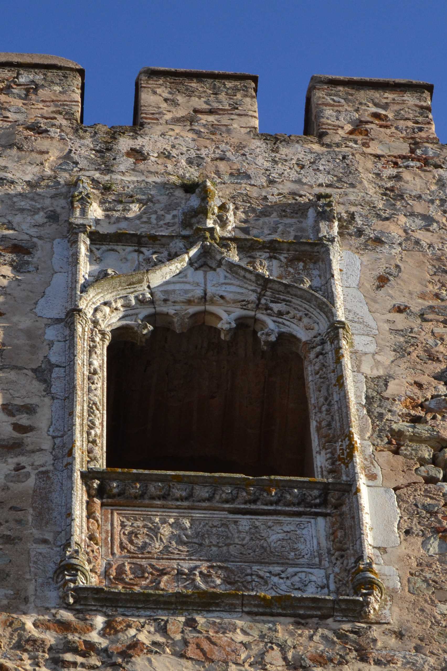 This file was uploaded for Wiki Loves Monuments in Portugal with the unique identifier 71110.